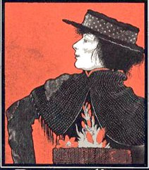 Image from the 1913 production of Pygmalion.